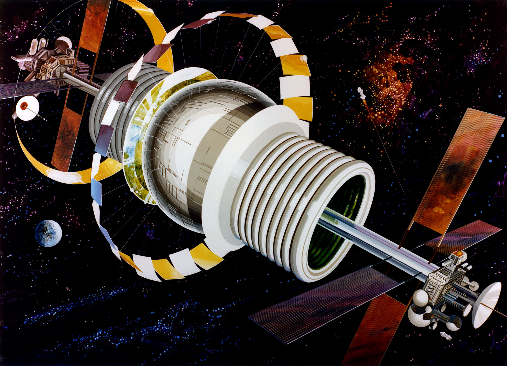 Artist's impression of the exterior view of a Bernal sphere space habitat design. Description from NASA: "The residential area is in the central sphere. Farming regions are in the "tires". Mirrors reflect sunlight into the habitat and farms. The large flat panels radiate away extra heat into space, and panels of solar cells provide electricity. Factories and docks for spaceships are at either end of the long central tube." NASA ID number AC76-0965. External link: "Space oddity: NASA's retro guide to future living" at CNN.